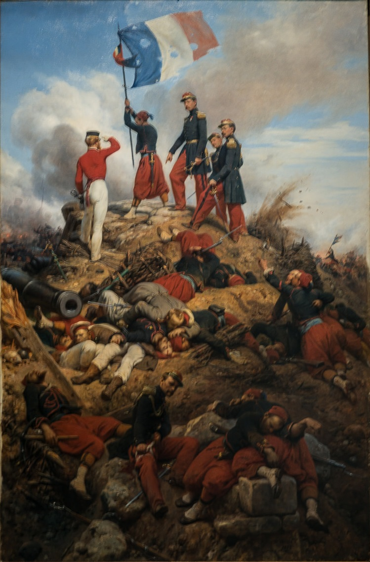 The taking of the Malakoff Redoubt by the French General Mac Mahon and his Zouaves.